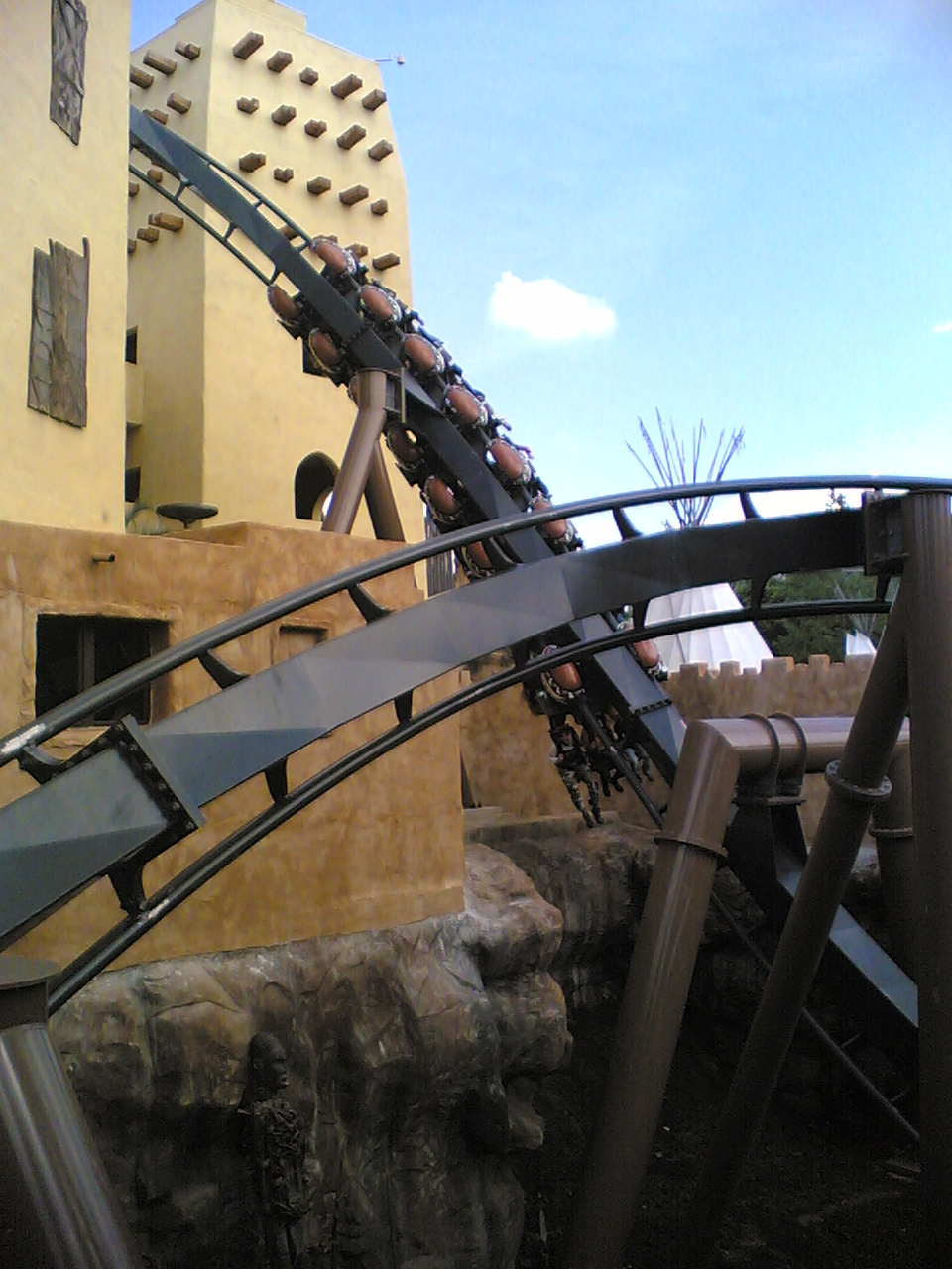 First drop of the roller coaster Black Mamba at Phantasialand, Germany.